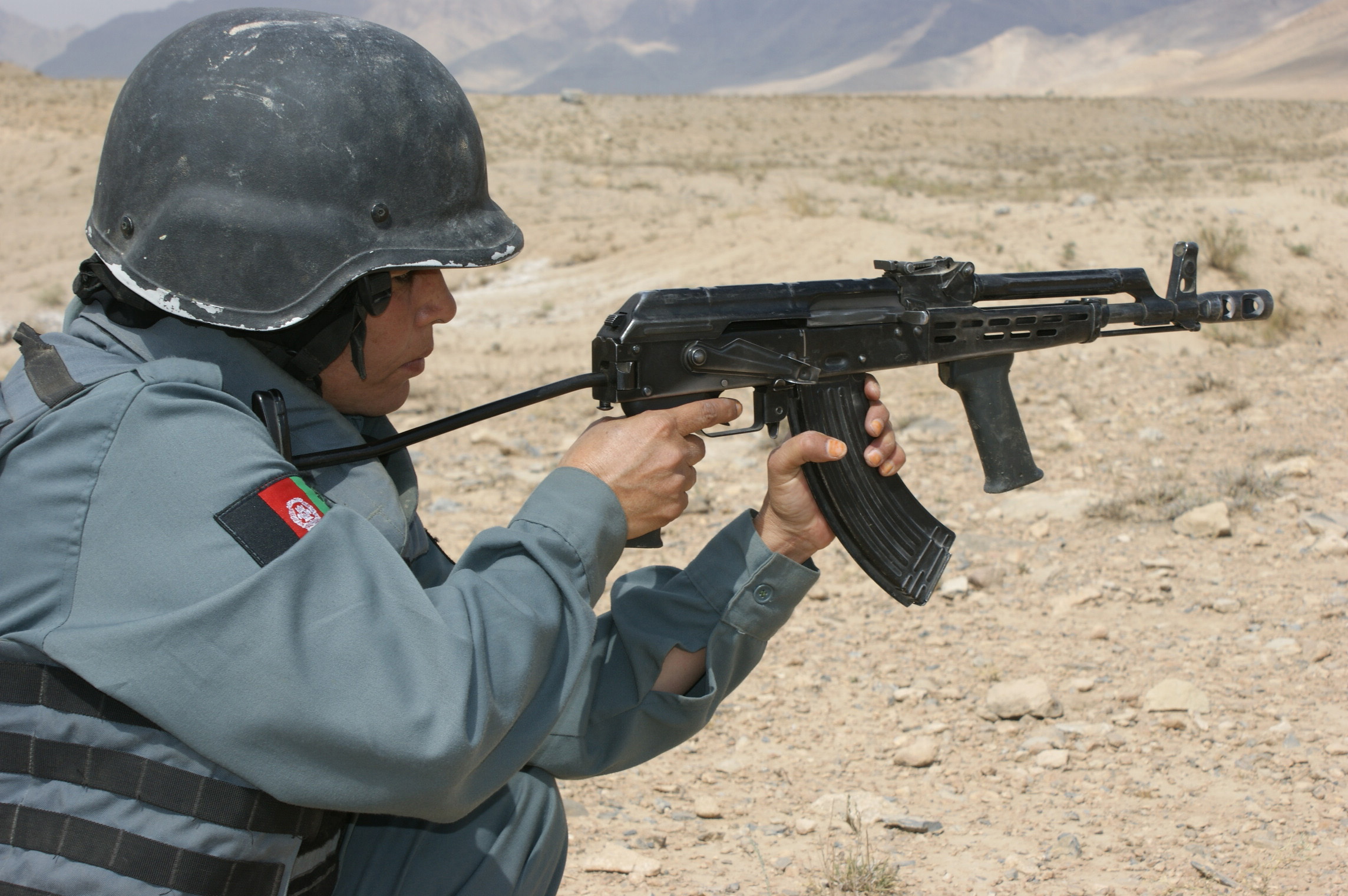 100929-N-1159-190 Kabul, Afghanistan (Sept. 29, 2010) An Afghan uniformed policewoman practices marksmanship techniques at Kabul Military Training Center with help from Italian Carabineri from NATO Training Mission Afghanistan. U.S. Navy photo by Chief Petty Officer Brian Brannon/Released